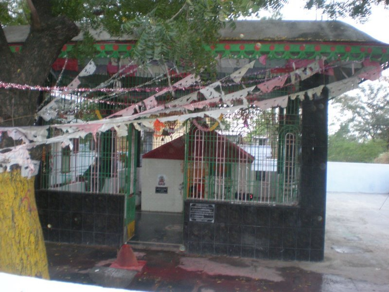 It is famous temple(Goddess: Poleramma) in our village. It was constructed in 19th Century. Devotees from many villages will visit every Sunday for their wishes